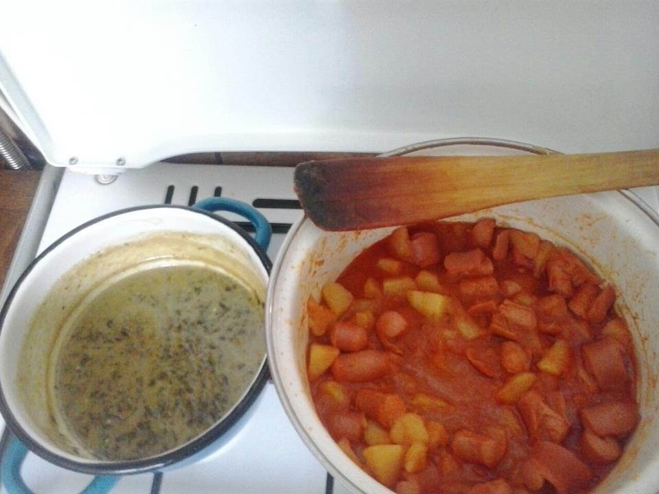 Potato paprikash with creamy sorrel sauce